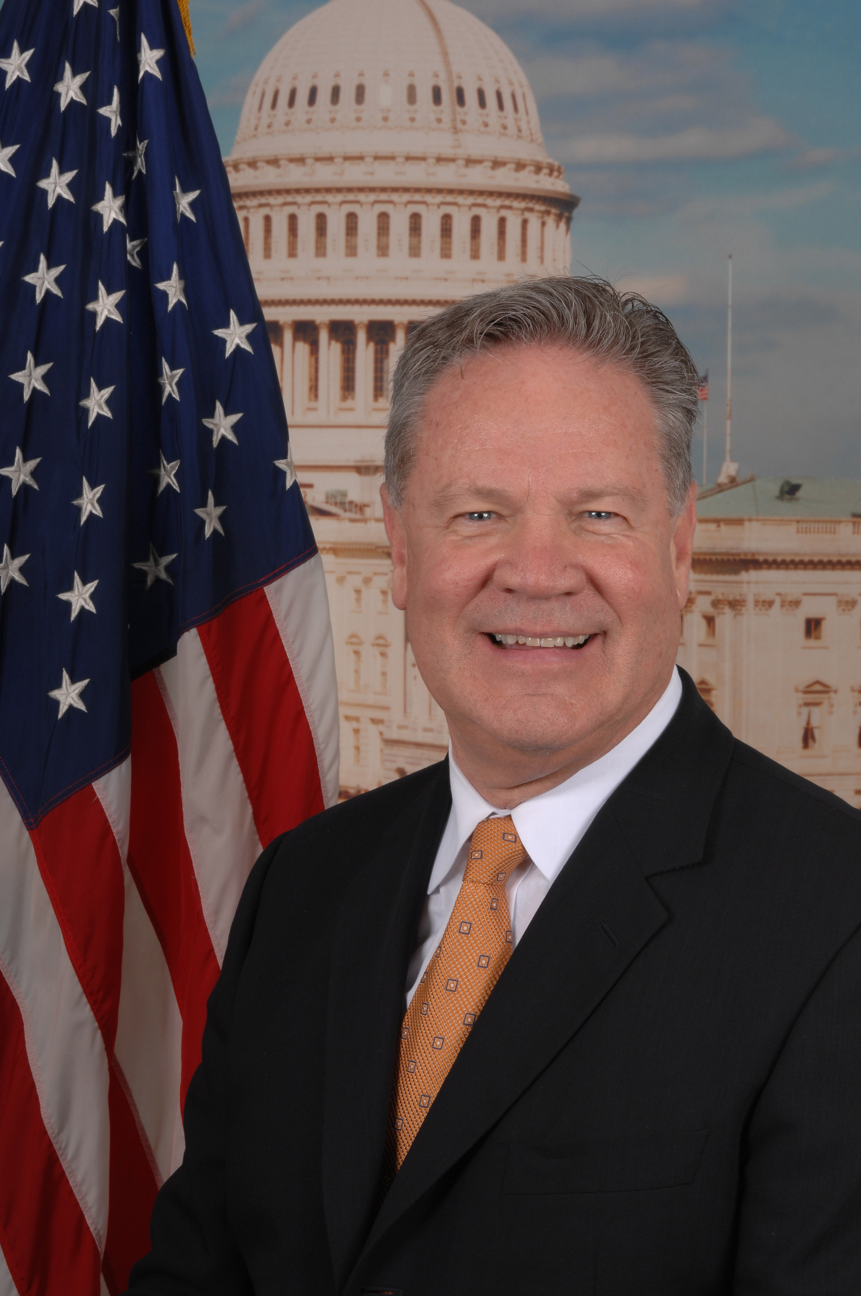 Charlie Wilson, member of the United States House of Representatives.